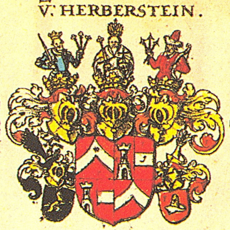 Coat of arms of the Herberstein family. Taken from Johann Siebmacher: New Wappenbuch, page 23.